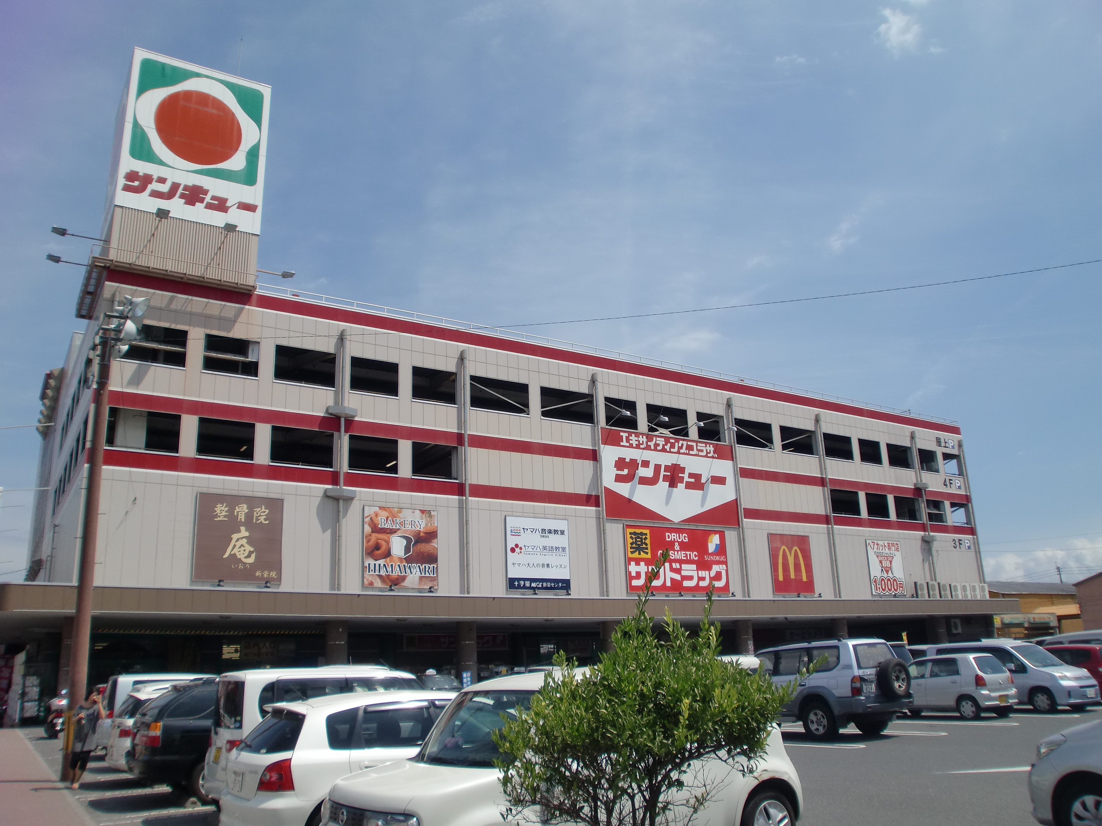 Thank you Shinei Store (a Supermarket in Kagoshima City, Kagoshima, Japan)